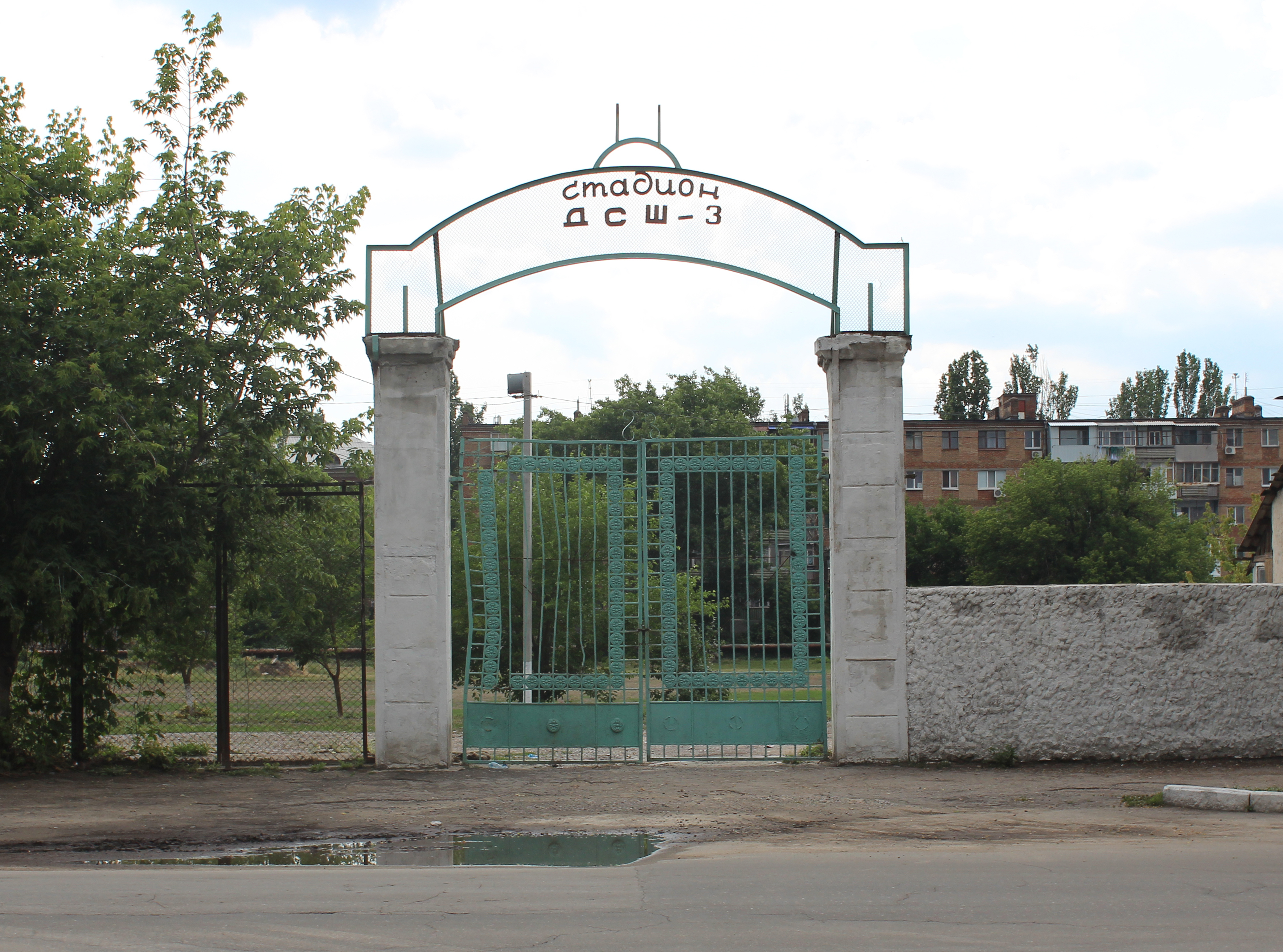 Pioner Stadium. Mykolaiv, Ukraine.